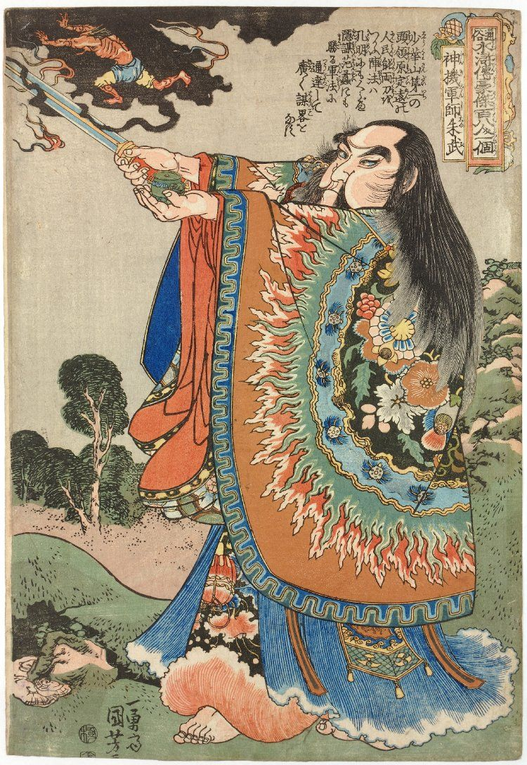 Zhu Wu (朱武) in a richly decorated robe, invokes magic powers to banish a small demon.